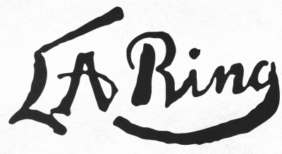 L.A. Ring signature